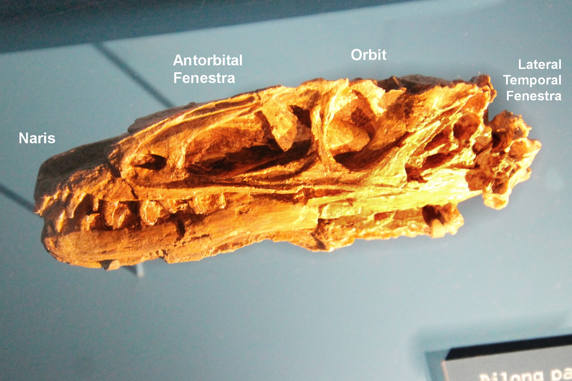 Skull IVPP V14243